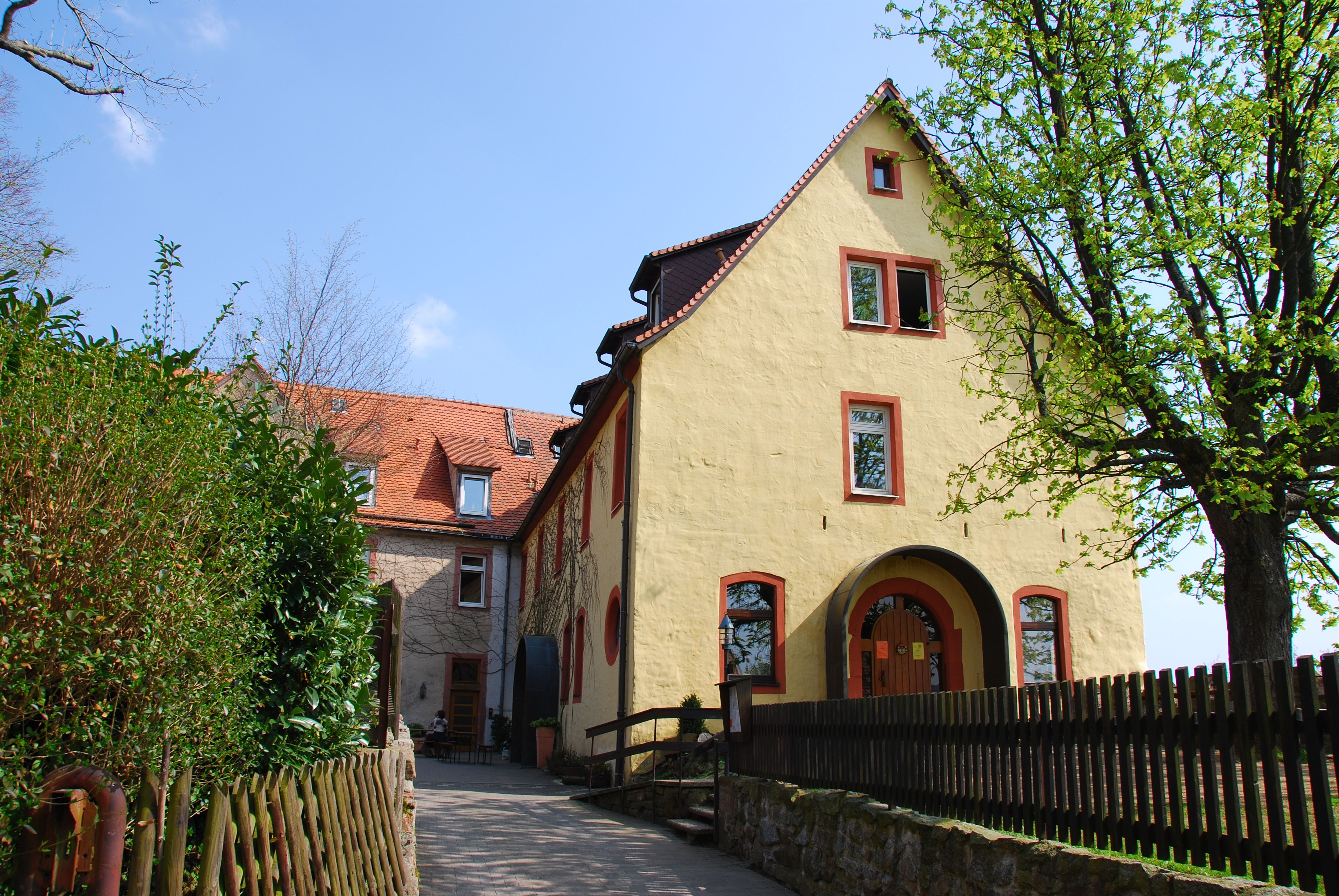 Reichenberg castle, home of the Offensive Junger Christen, Reichelsheim -- Schlosscafe